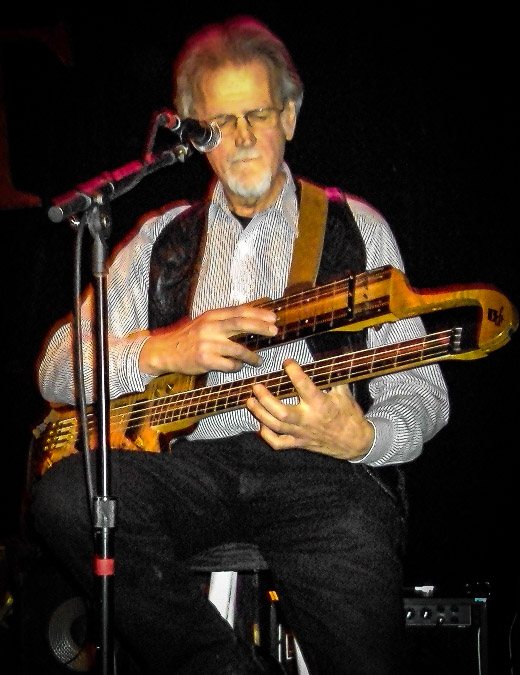 Dave Bunker plays his Touch Guitar on stage in Ballard, Washington.